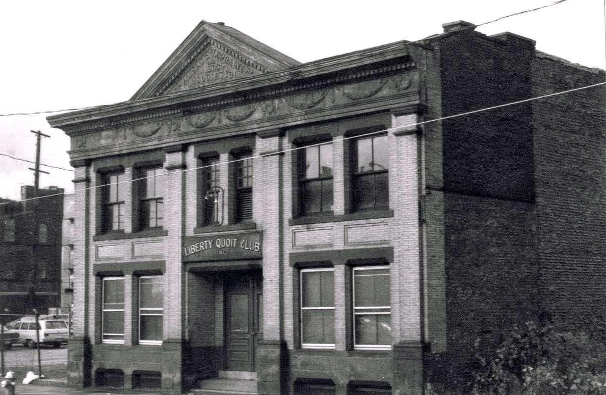 The former offices of the Alsace-Lorraine Union of America in the South Holyoke neighborhood of Holyoke, Massachusetts, also identified as L'Union Alsace-Lorraine or the Alsace-Lorraine Society; founded in 1891, it removed to this clubhouse designed by George P. B. Alderman in 1903, the building was reported to have ash panelling- a card room, pool parlor, commercial grills and a buffet; by 1935 the building became home to the Liberty Quoit Club, quoits being a sport in vogue at that time. Little is known about the nature of the original Alsace-Lorraine Union other than that its directors had Franco-German last names found in that region of France/the German Empire.